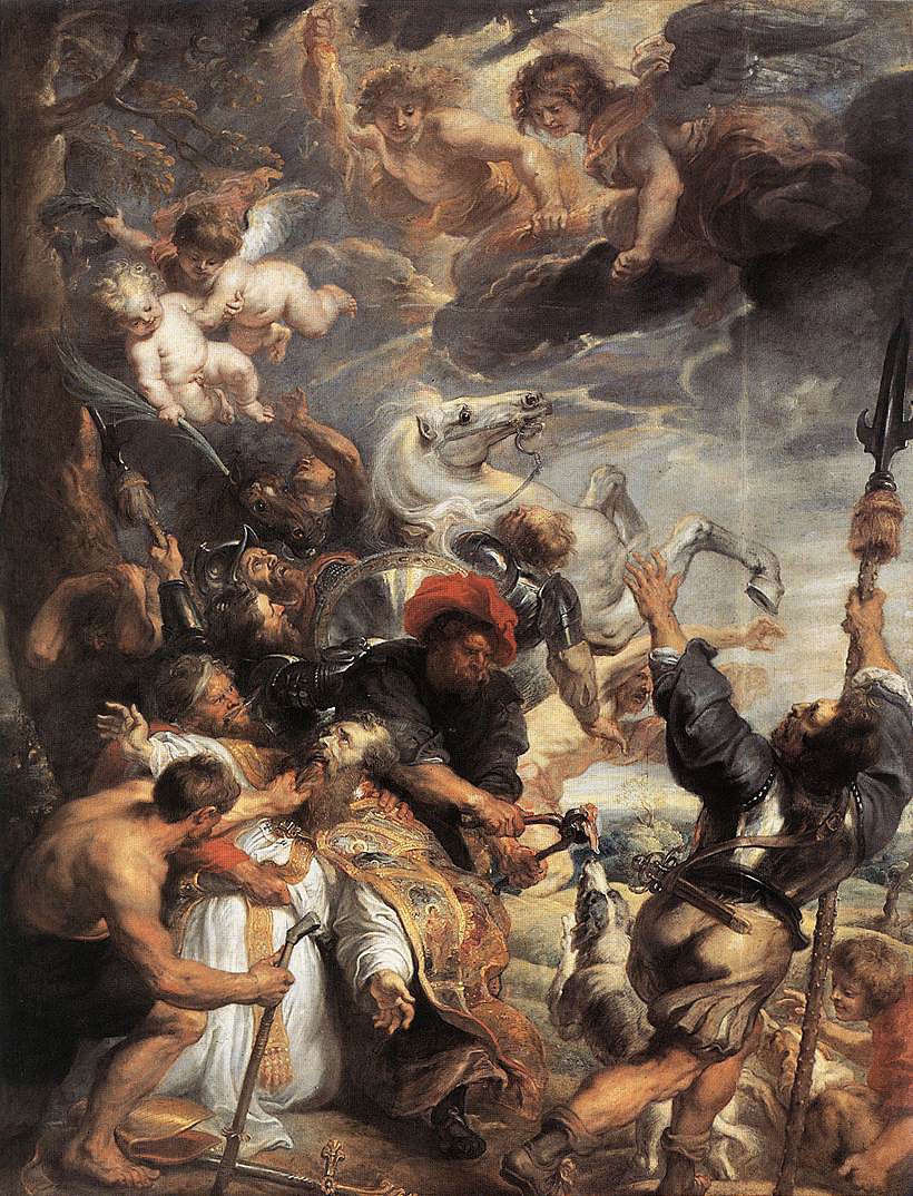 Rubens oil painting: The Martyrdom of St Livinus. Size: 455 x 347 cm. Location: Musées Royaux des Beaux-Arts, Brussels